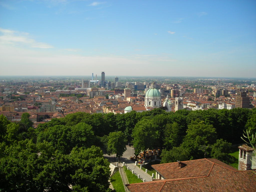 Sight of Brescia from the city castle